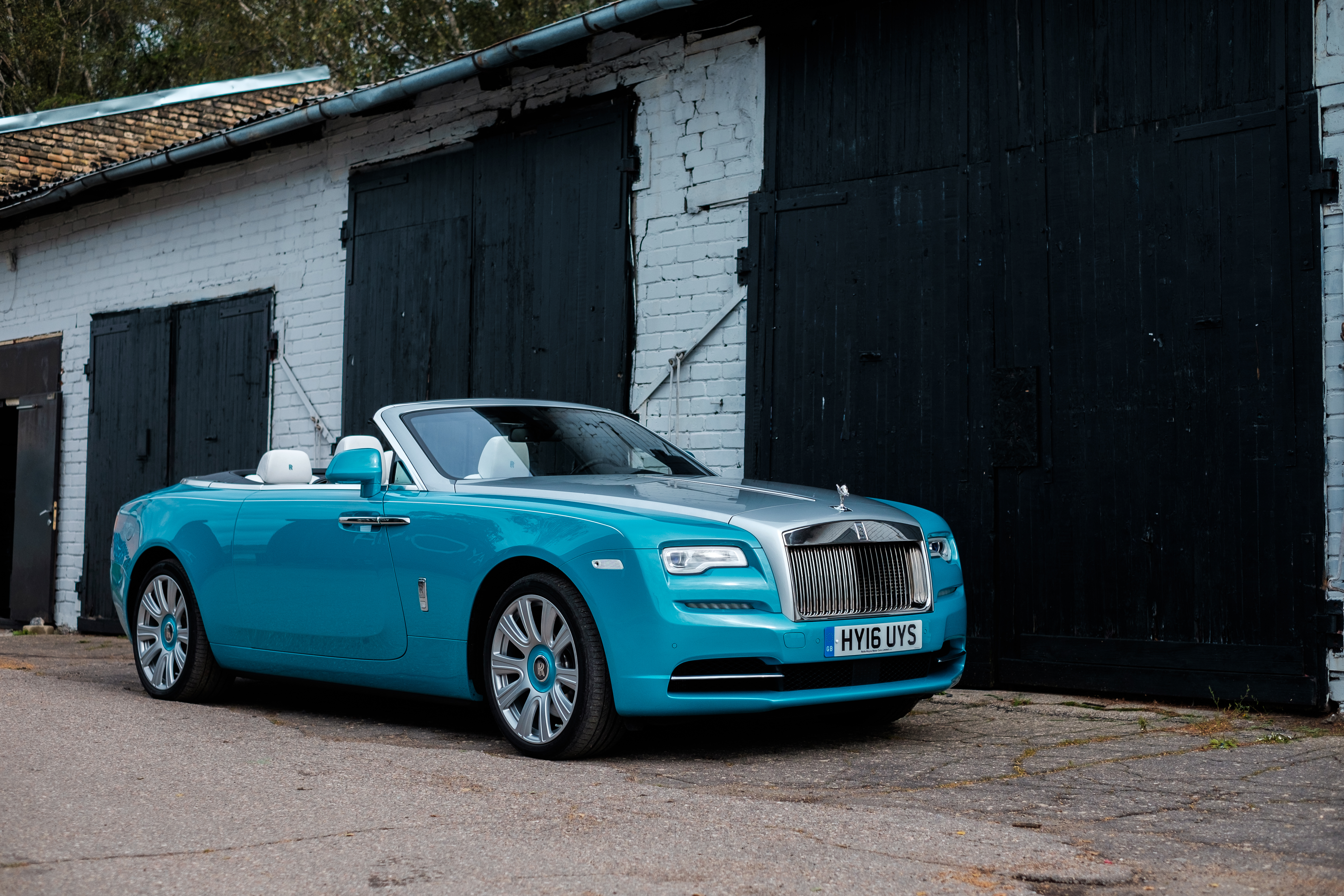 Rolls Royce Dawn 2016